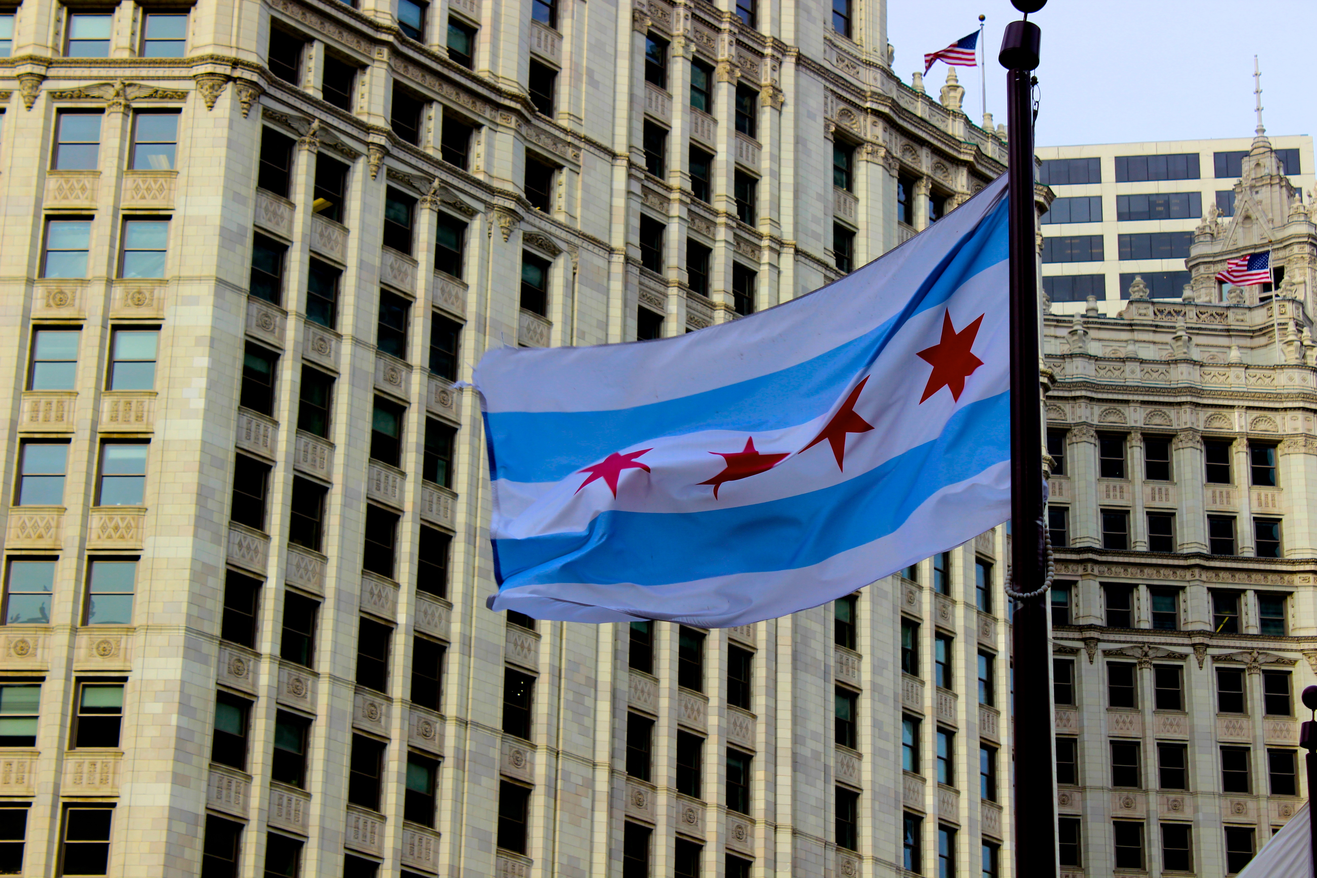 Chicago Flag, January 2015